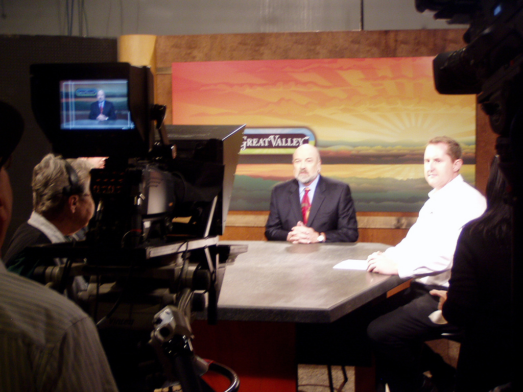 Tom Cotter of Real Goods Solar in Fresno on the set of Great Valley, the new KVPT-TV public affairs program produced by the Great Valley Center, with host David Hosley.